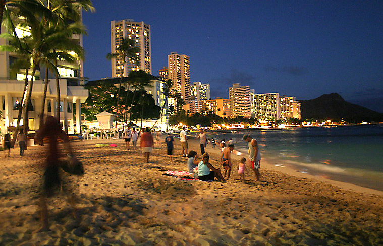 Waikiki beach at night, Waikiki, Honolulu.